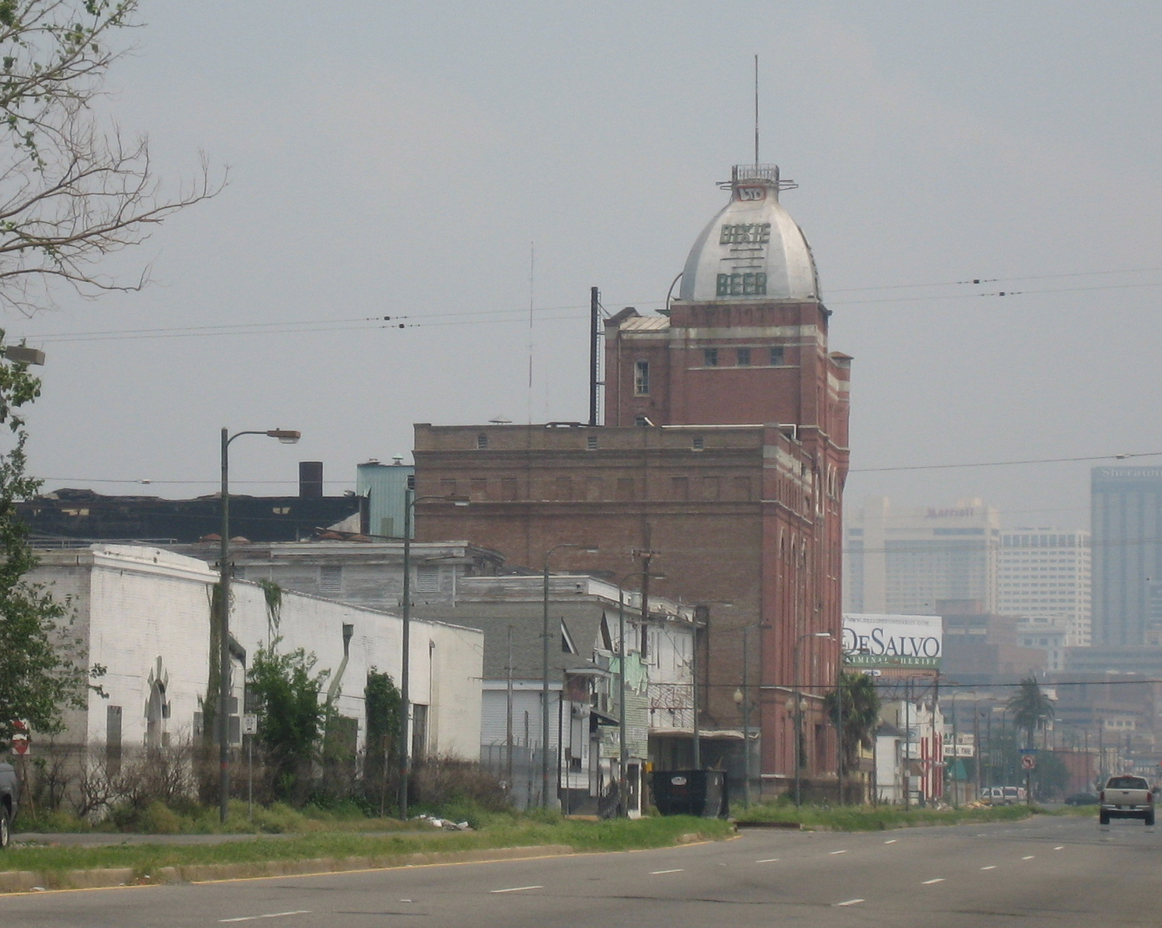 New Orleans after Hurricane Katrina: damage in formerly flooded Mid City section of the city. Note still clearly visible lines from long standing flood muck level. Dixie Brewery building on Tulane Avenue.